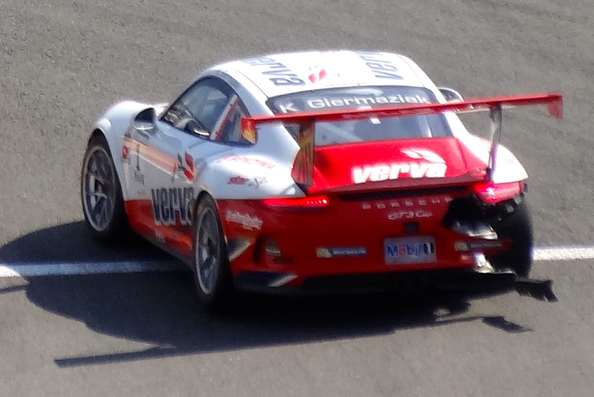 Kuba Giermaziak, Porsche Supercup, Spa 2015